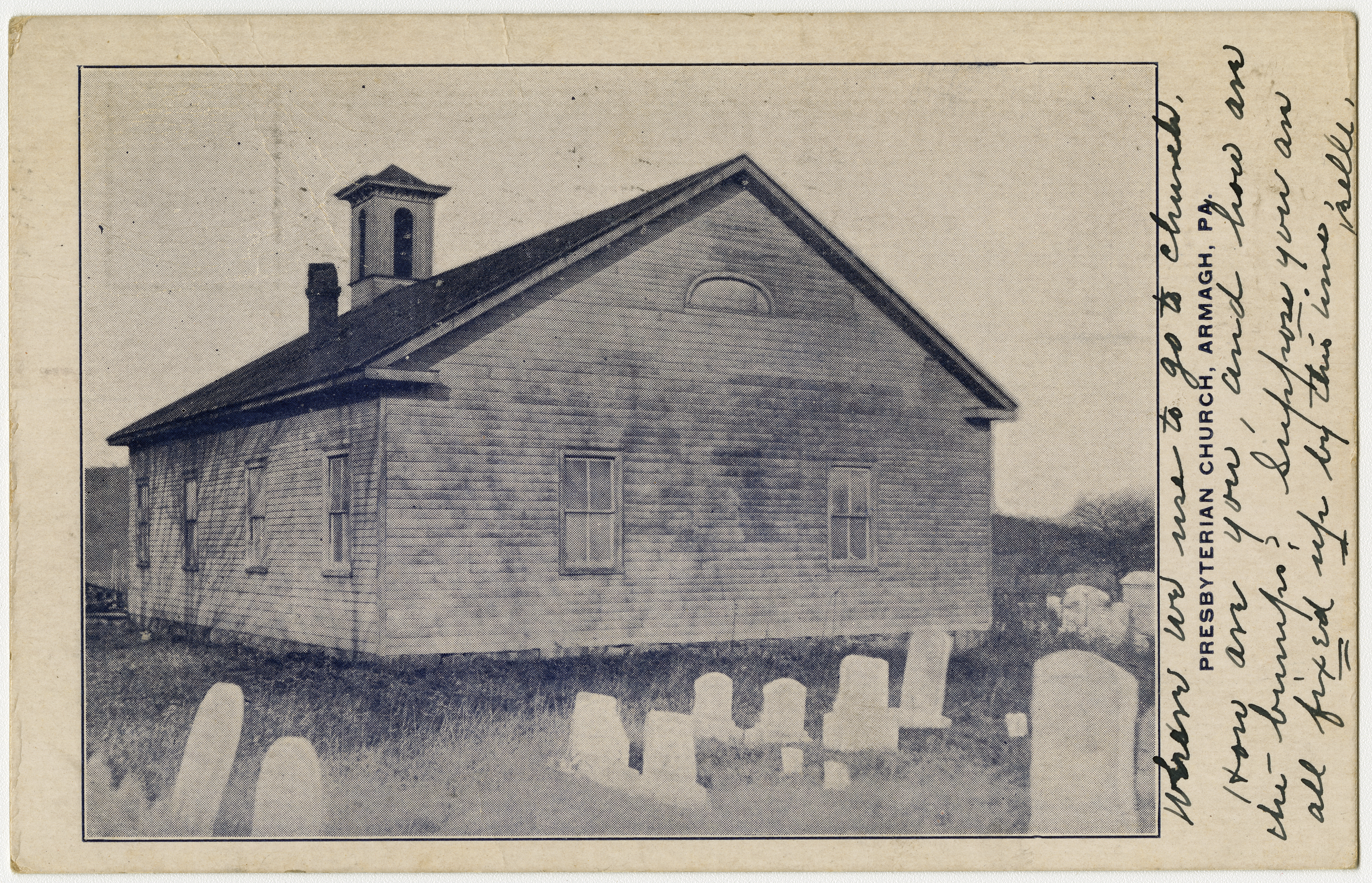 Presbyterian church in Armagh, Pennsylvania from a pre-1923 postcard From RG 428, Postcard Collection, Presbyterian Historical Society, Philadelphia, Pennsylvania. The Armagh Presbyterian Church was built in 1835-6, with roots that go back to 1786, with a log church built in 1820. It was merged in 1963 into the Armagh-Seward Presbyterian Church about 3.5 south in Seward, PA. The cemetery remains in Armagh along Route 56. News story - Armagh-Seward Presbyterian Church observes 50th anniversary of merger. This building was destroyed in 2004 after being hit by a truck.